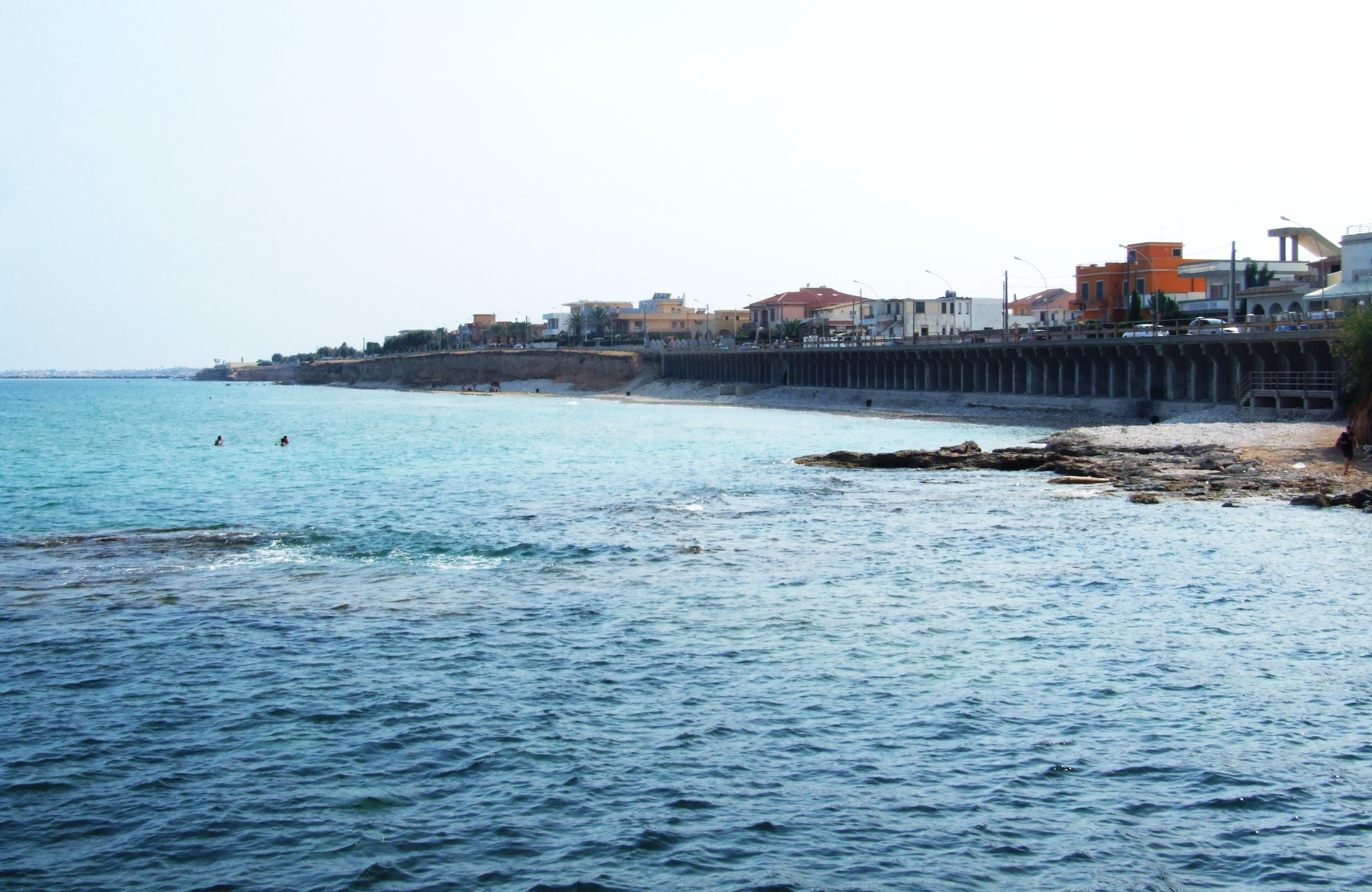 Avola, Sicily